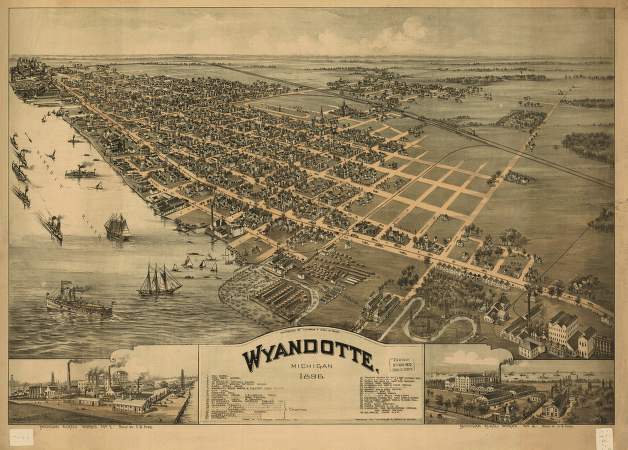 Birds-eye view of Wyandotte, Michigan